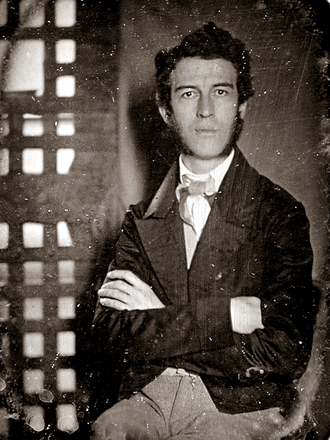 Notes from Chester County Historical Society: Passmore Williamson (1822-1895) in Moyamensing Prison, Philadelphia, PA, 1855. Abolitionist, imprisoned for assisting runaway slave. Visited by Frederick Douglass. Jail door in background.